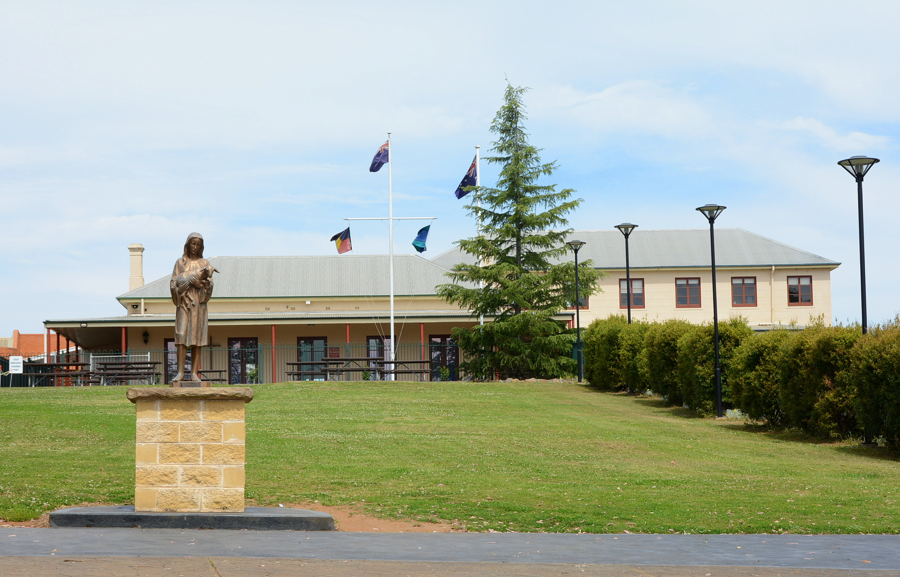 Fairholme, a heritage-listed house built by the Evans family on Evans Road, Rooty Hill, Sydney, in the 19th century. The two-storey section on the right was added later. The house is now part of St Agnes Catholic High School. The statue shows St Agnes, who is traditionally depicted holding a lamb.